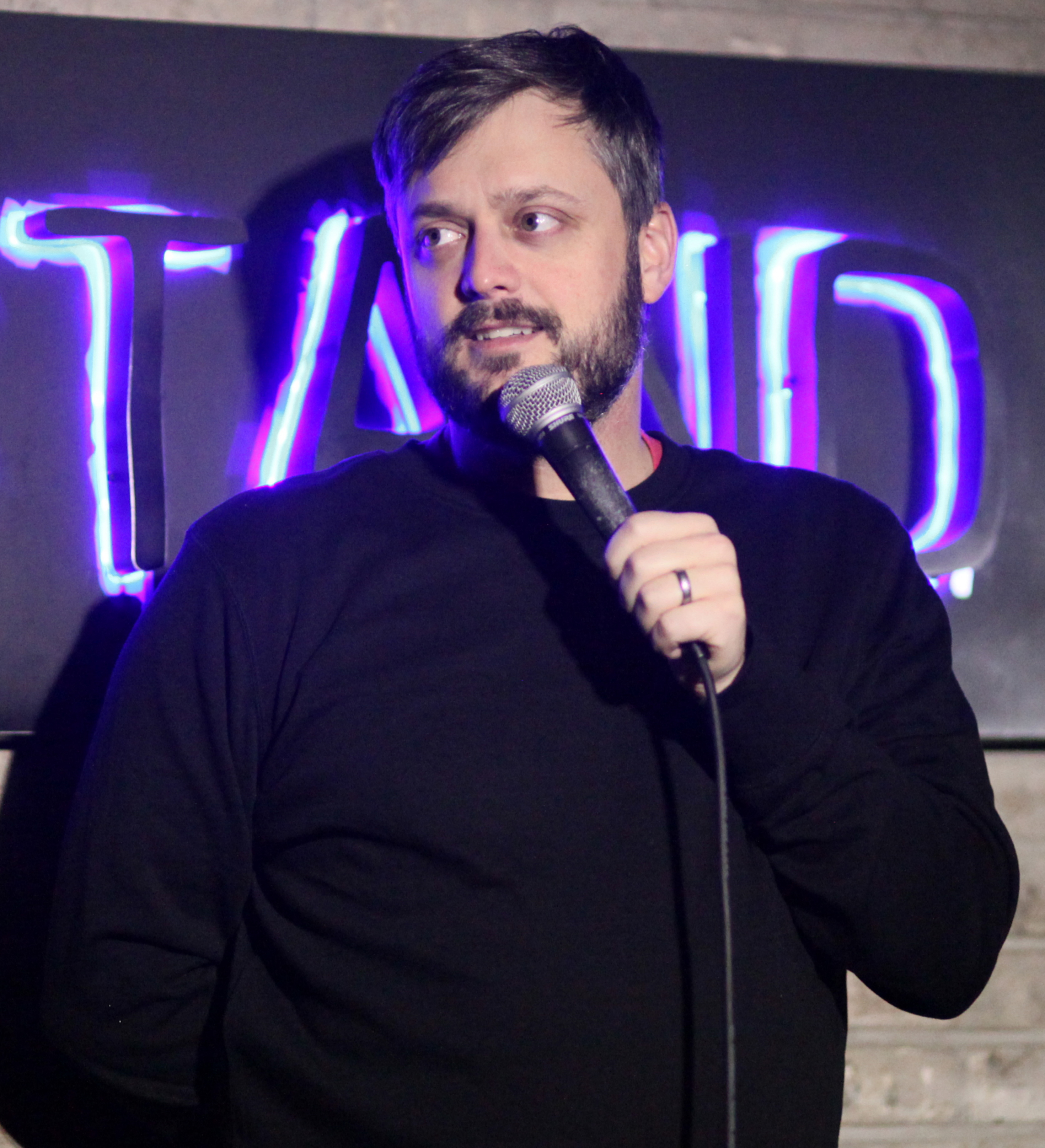 Bargatze performing in February 2017.